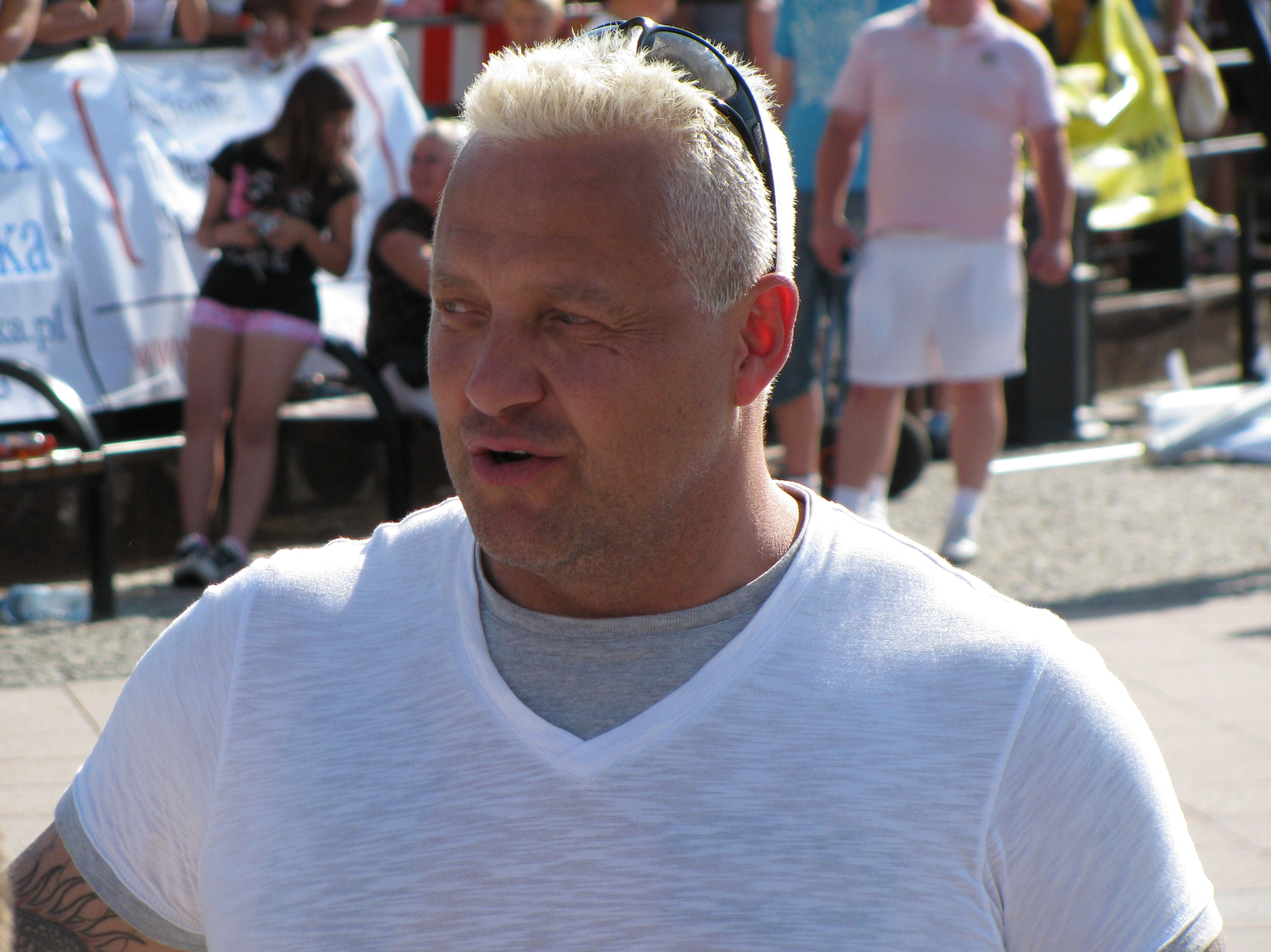 Svend Karlsen - a strength athlete from Norway. World's Strongest Man 2001.